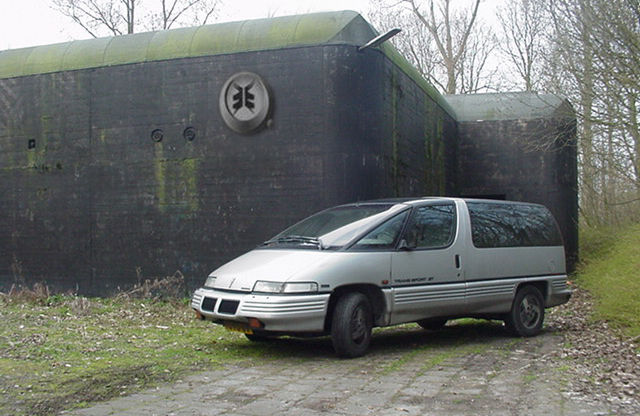 CyberBunker, Kloetinge